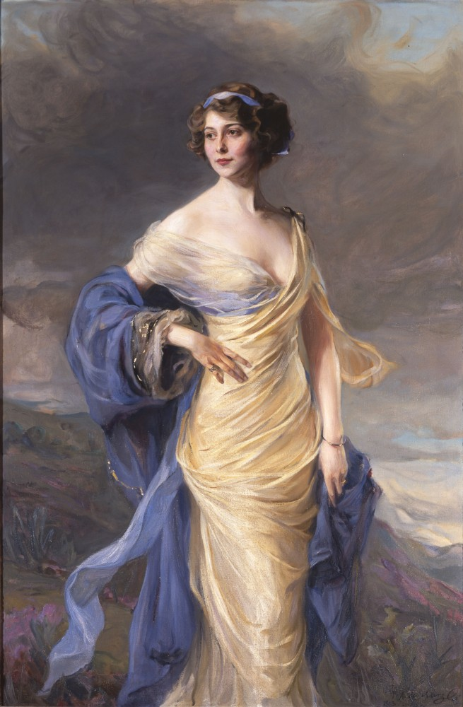 Eileen Sutherland-Leveson-Gower, Duchess of Sutherland, née Lady Eileen Gwladys Butler; wife of 5th Duke